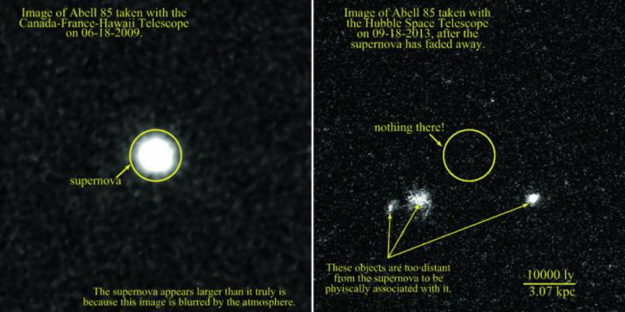 Abell 85 Hostless supernova